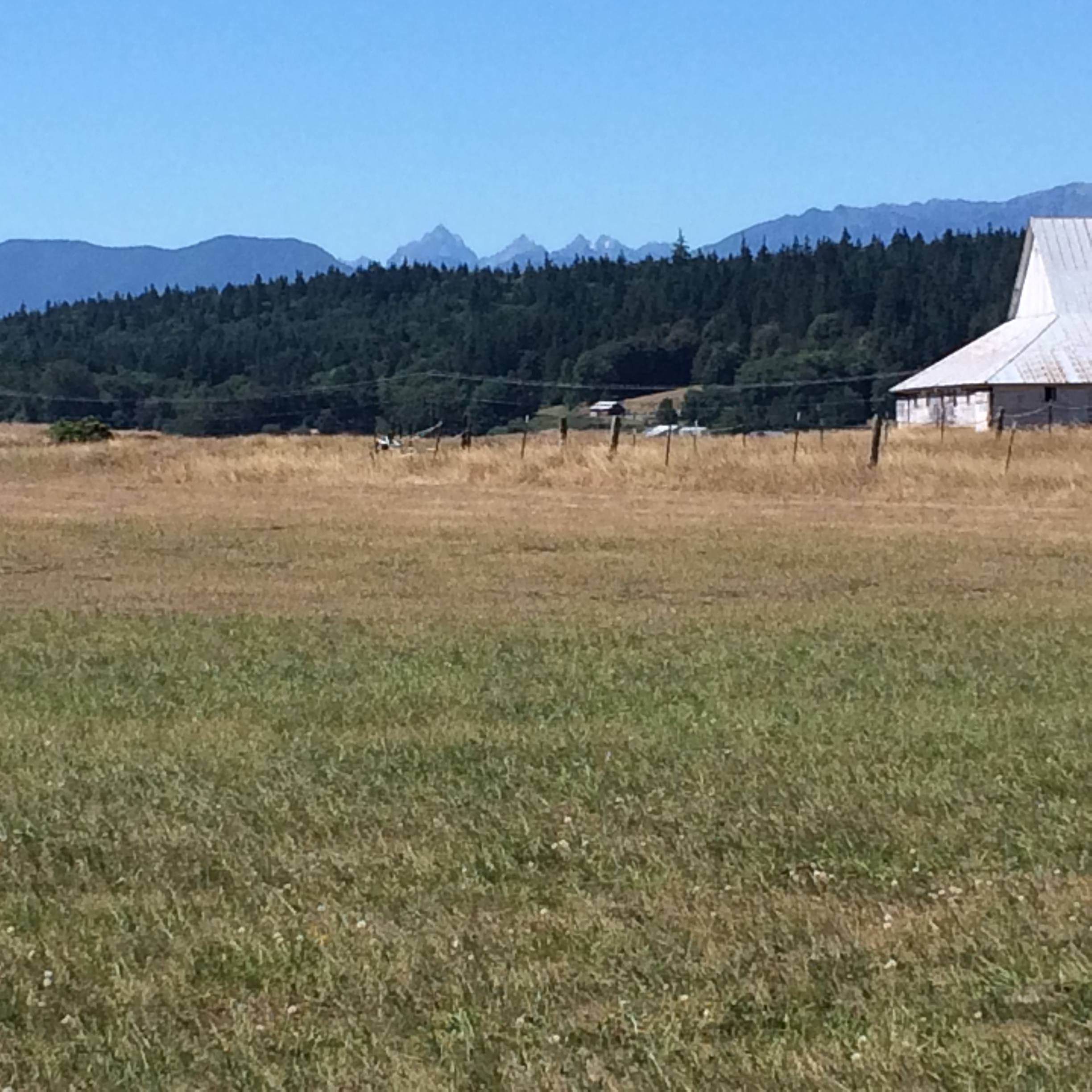 Mount Olympus from Chimacum Valley